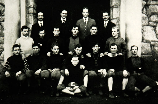 Although Emory does not have a football team, there was intramural football at the beginning of the 20th century. This is a photo of one the 1911 Emory College intramural football teams.